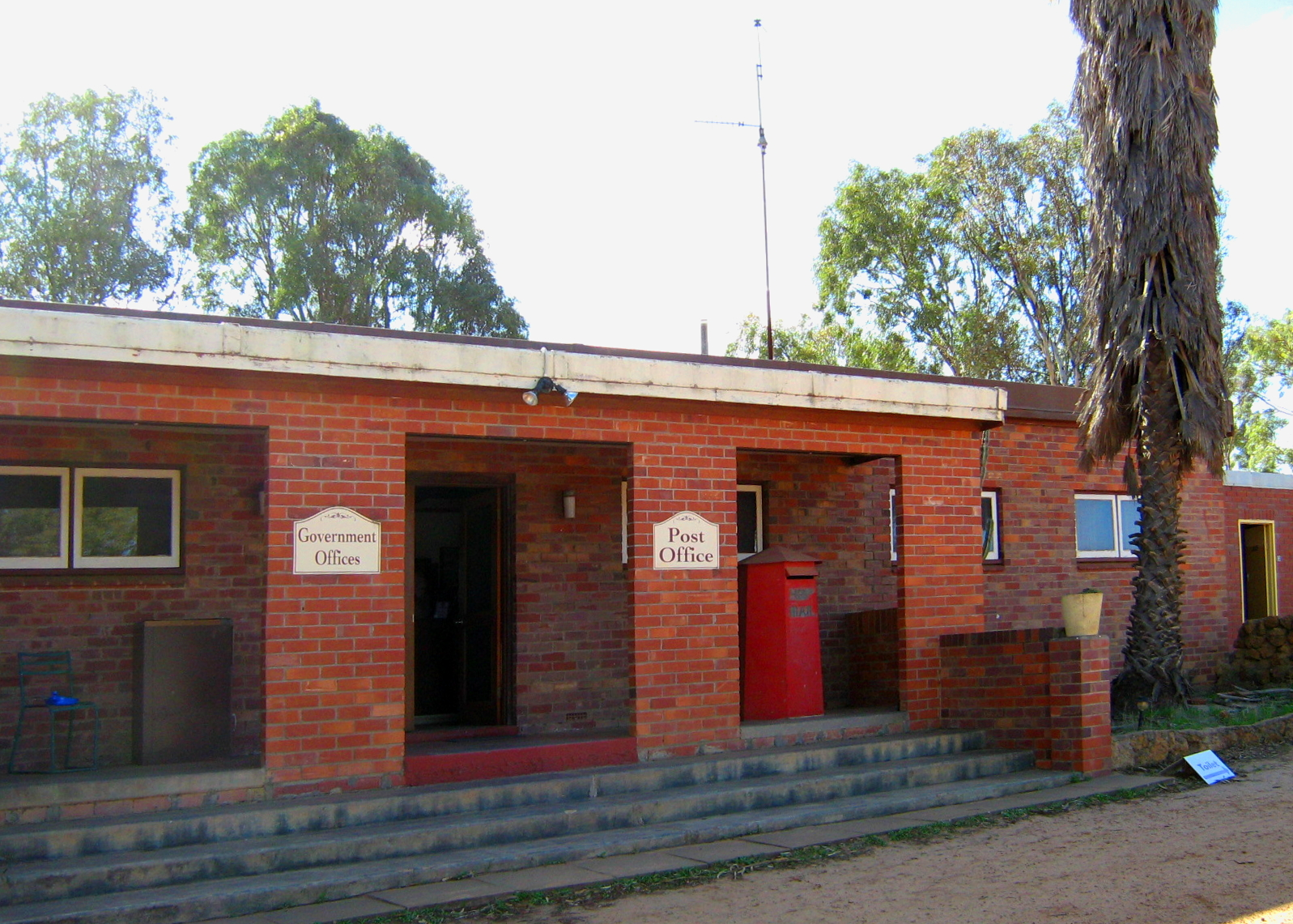 Buildings at Hutt River Principality, located at Nain, about 40 km NNW of Northampton, Western Australia. Buildings at Hutt River Principality, located at Nain, about 40 km NNW of Northampton, Western Australia.